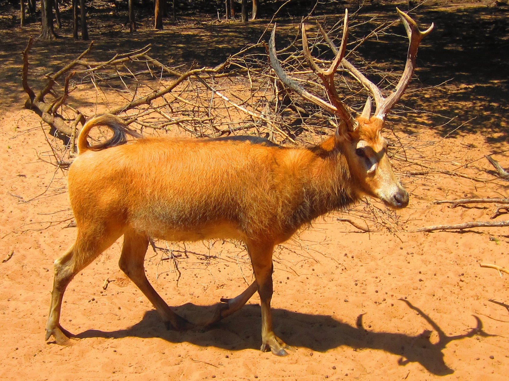 Père David's Deer (Elaphurus davidianus) at Sharkarosa Wildlife Ranch in Pilot Point, Texas